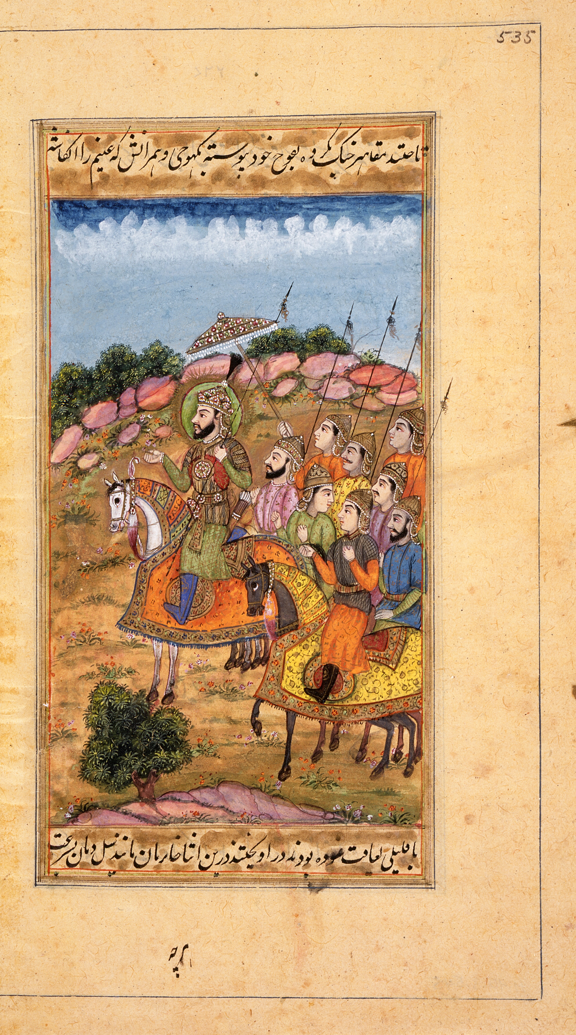 a) Shah Jahan watches the assault on Daulatabad Fort in 1633; b) Capture of Daulatabad Fort in 1633, Folio from Lahori’s Padshahnama